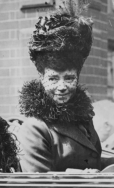 Dowager empress Maria Feodorovna (Dagmar of Denmark) of Russia